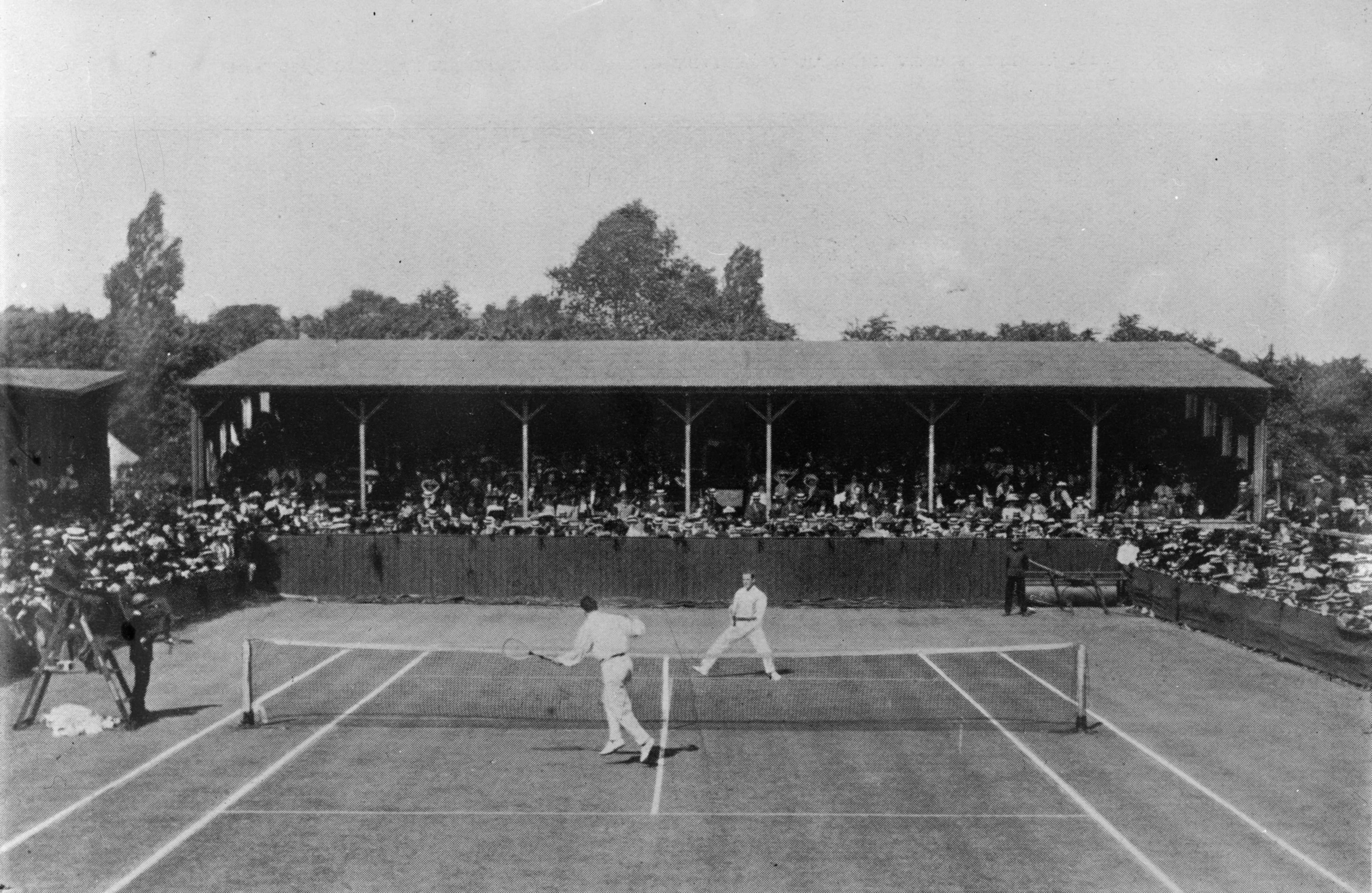 Final of the 1910 All-comers' Singles tennis match at Wimbledon, London, England, featuring Anthony Wilding and Beals Wright. From - Anthony Frederick Wilding, On the court and off (London : Methuen, 1912) opposite p130.